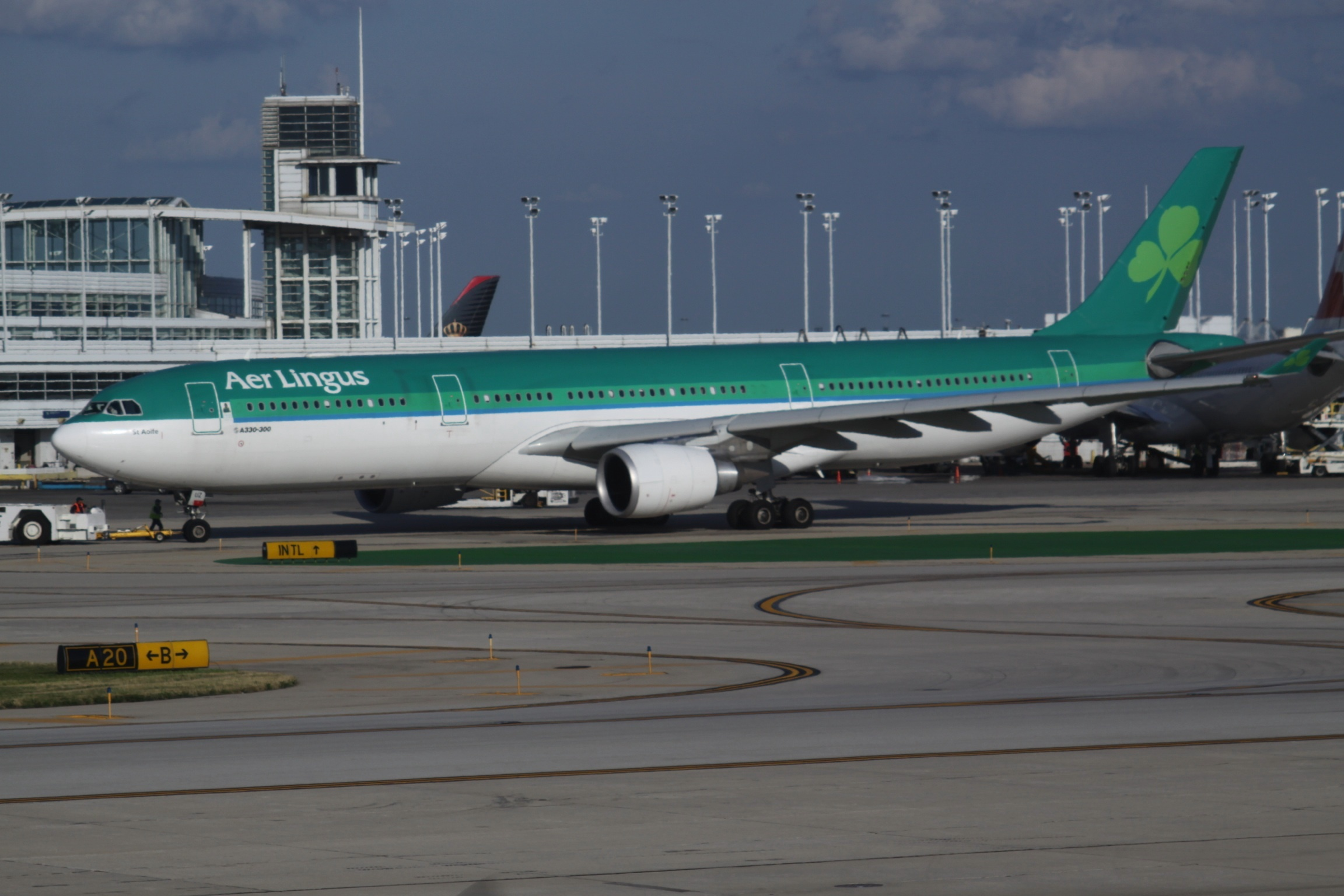 At Chicago O'Hare